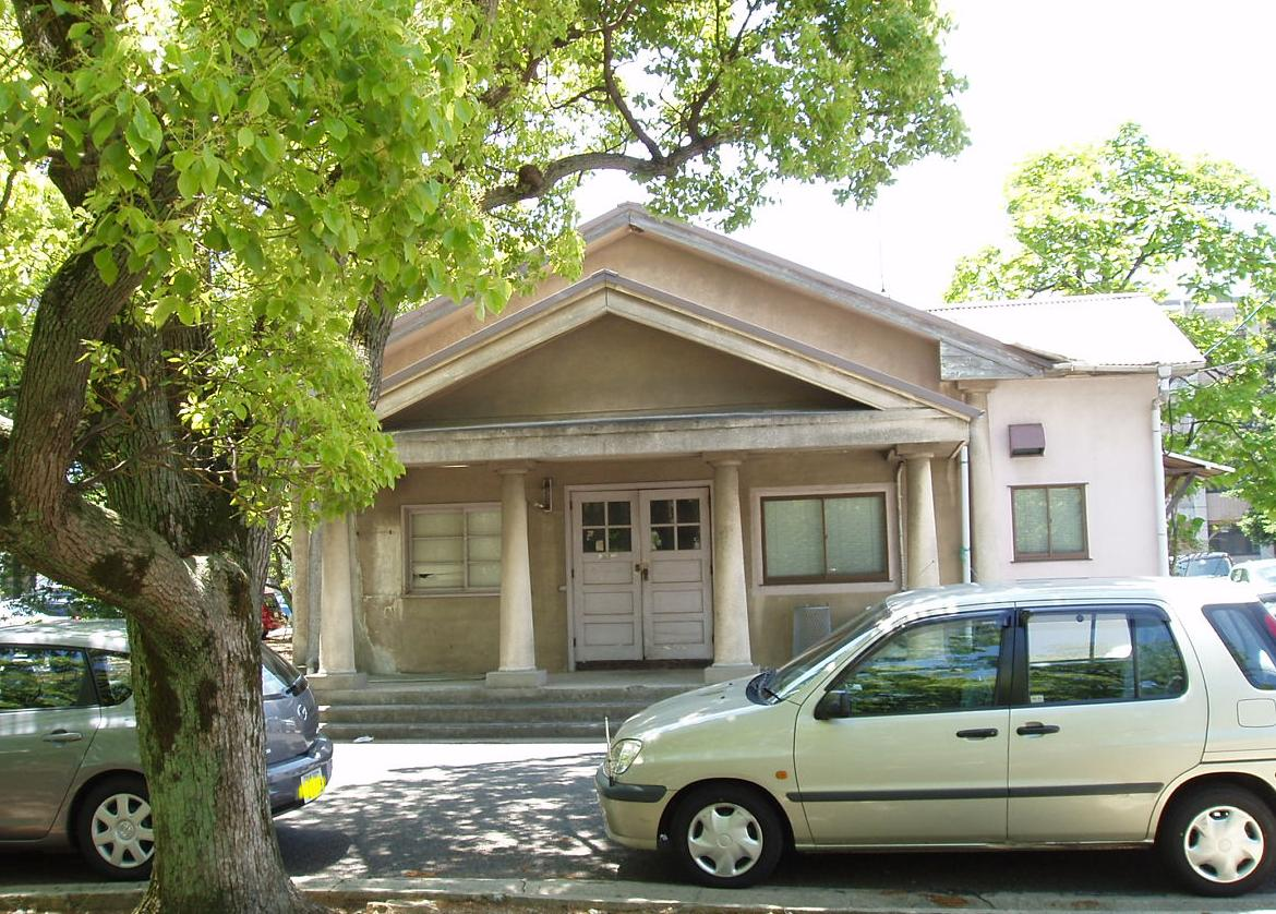 The "Chapel", one of the ruins of the occupation army (Camp Sakai). Built around 1950. The cross was taken away in 1955. This chapel was removed in December, 2005.